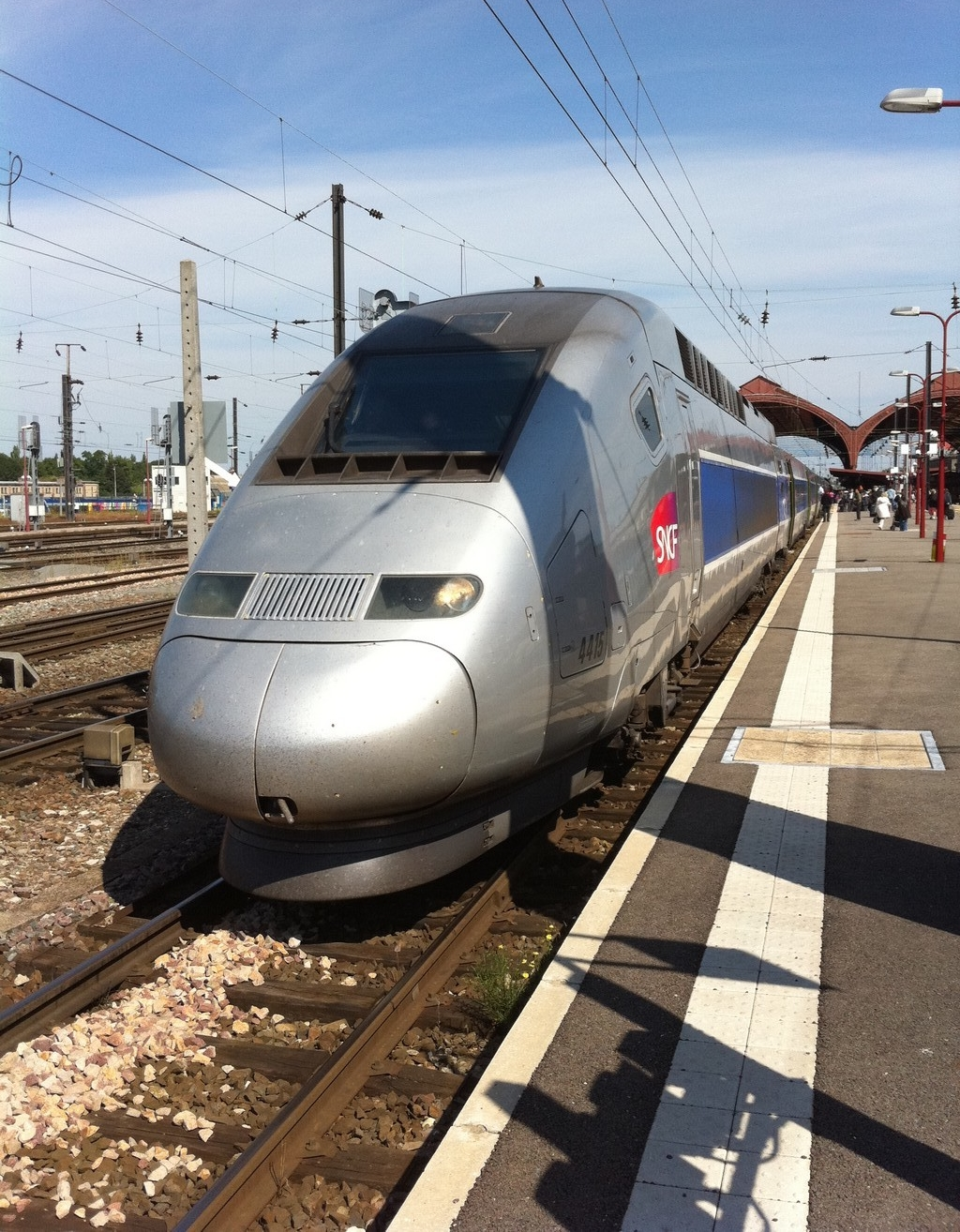 TGV POS #4415 trainset in Strasbourg